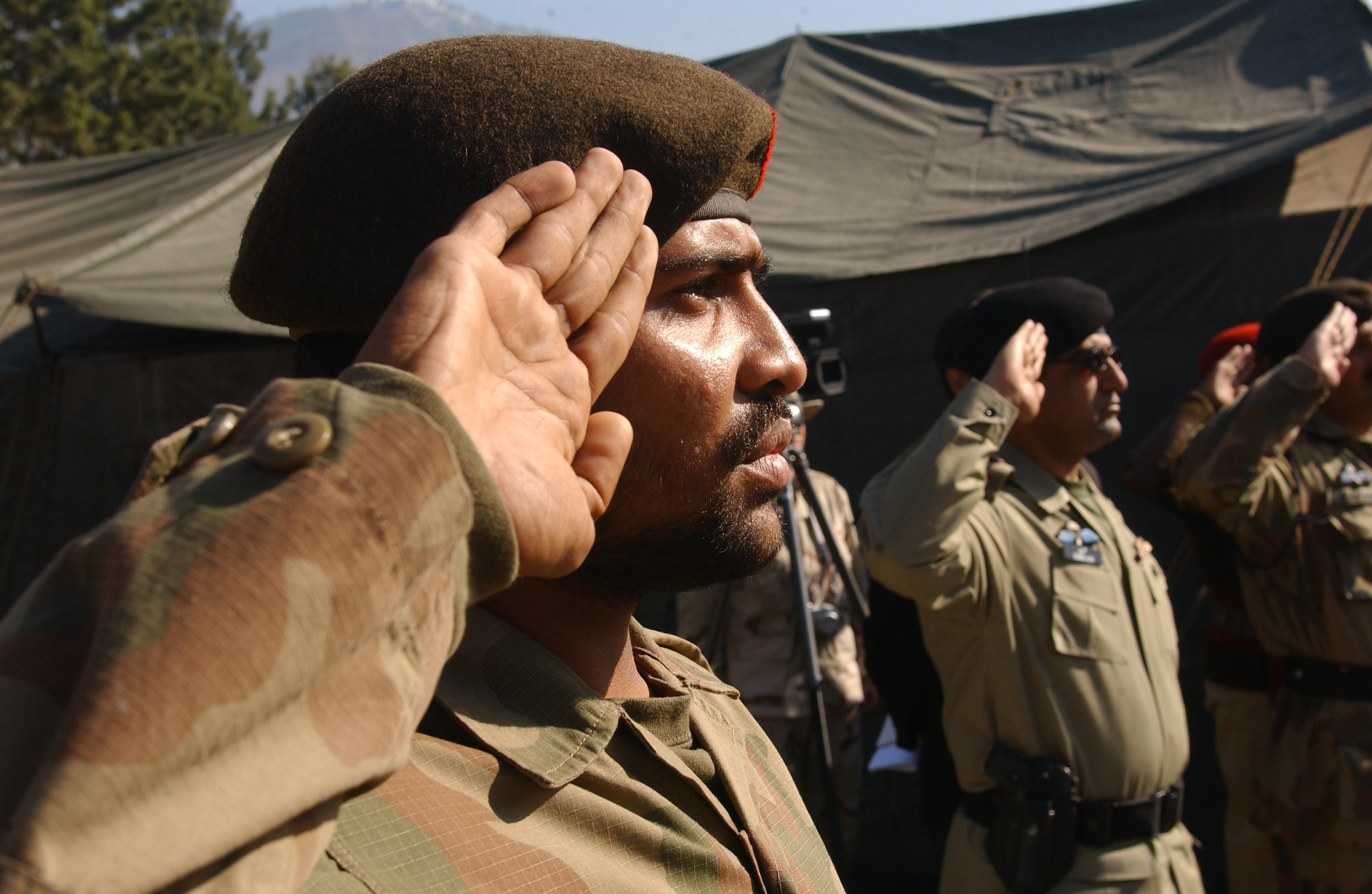 Pakistan army soldiers with the Pakistan 67th Medical Battalion salute during a transfer of authority ceremony with U.S. Army soldiers of the 212th Mobile Army Surgical Hospital in Muzaffarabad, Pakistan, on Feb. 16, 2006. The Pakistan Medical Battalion will provide medical treatment to victims of the devastating earthquake that struck the region Oct. 8, 2005.